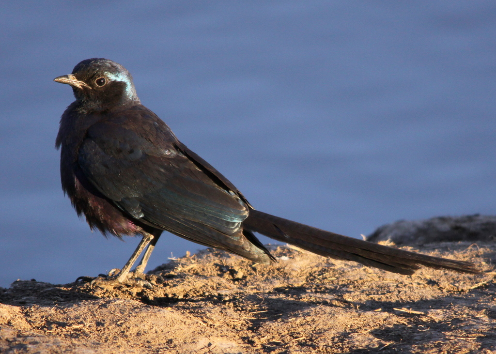 Meves's Glossy-starling (Lamprotornis mevesii) immature at water's edge